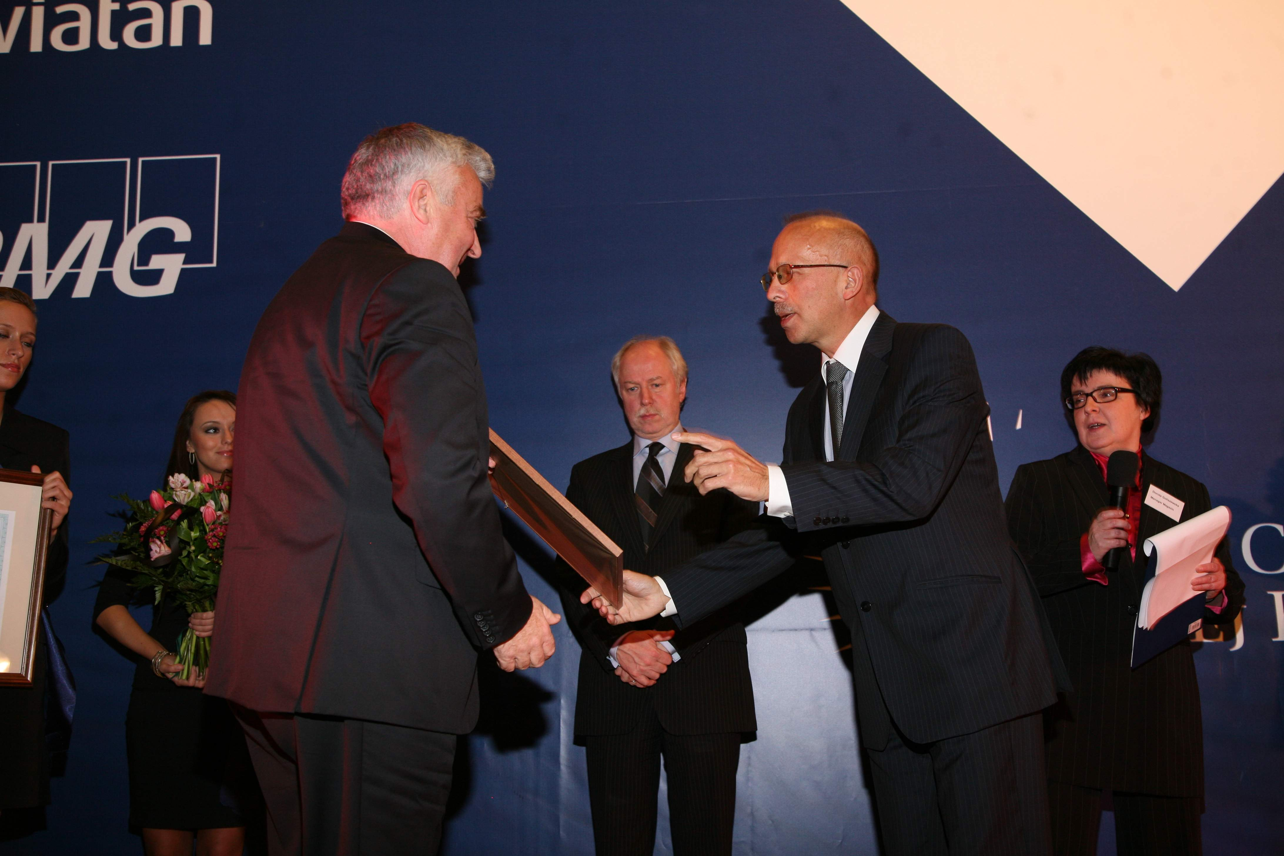 Wiesław Rozłucki receives the Galeria Chwaly-award at a gala in Victoria hotel in Warsaw by prof Adam Budnikowski (SGH)